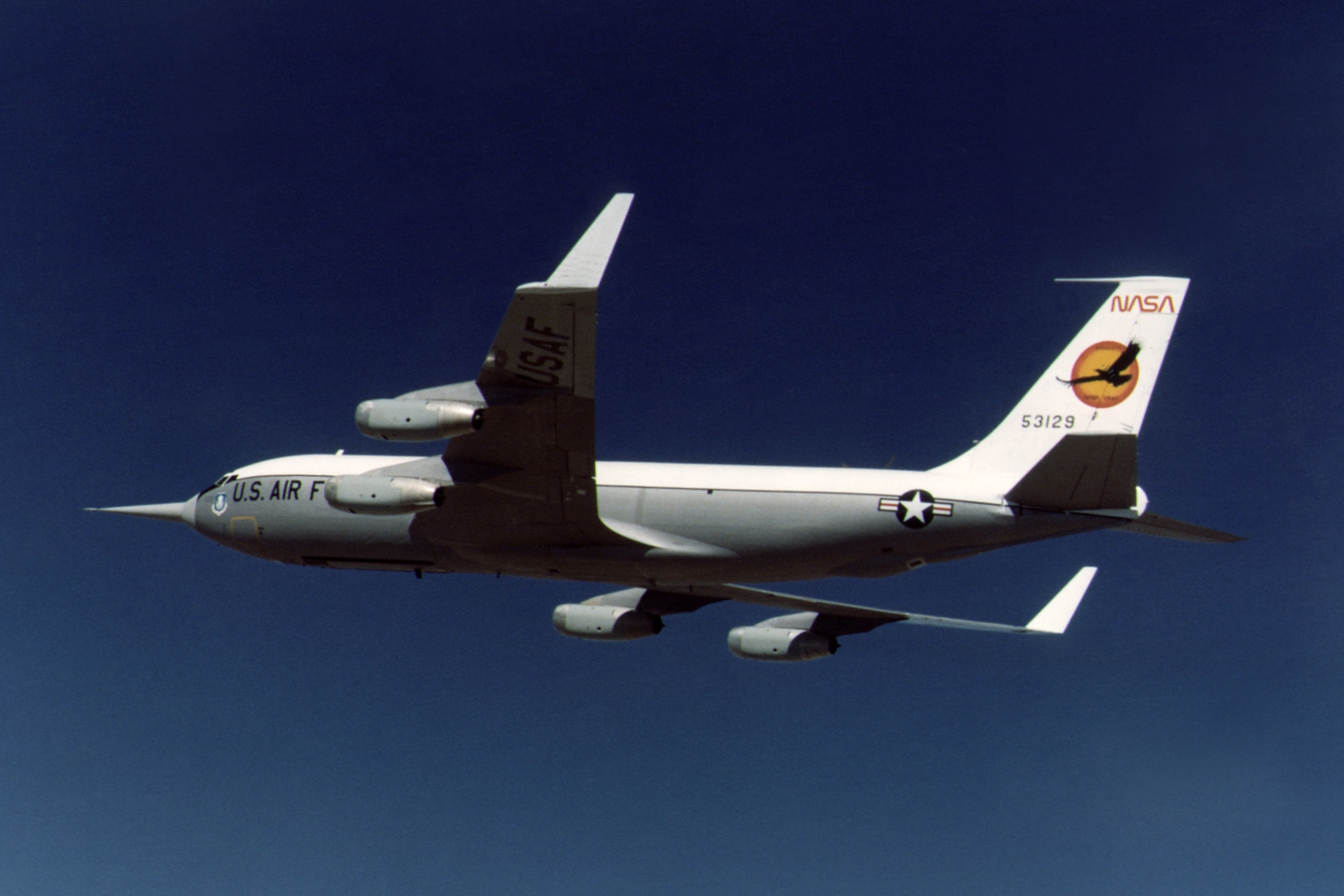 KC-135A in flight with Winglets for NASAs Winglet study. Blue sky in background.